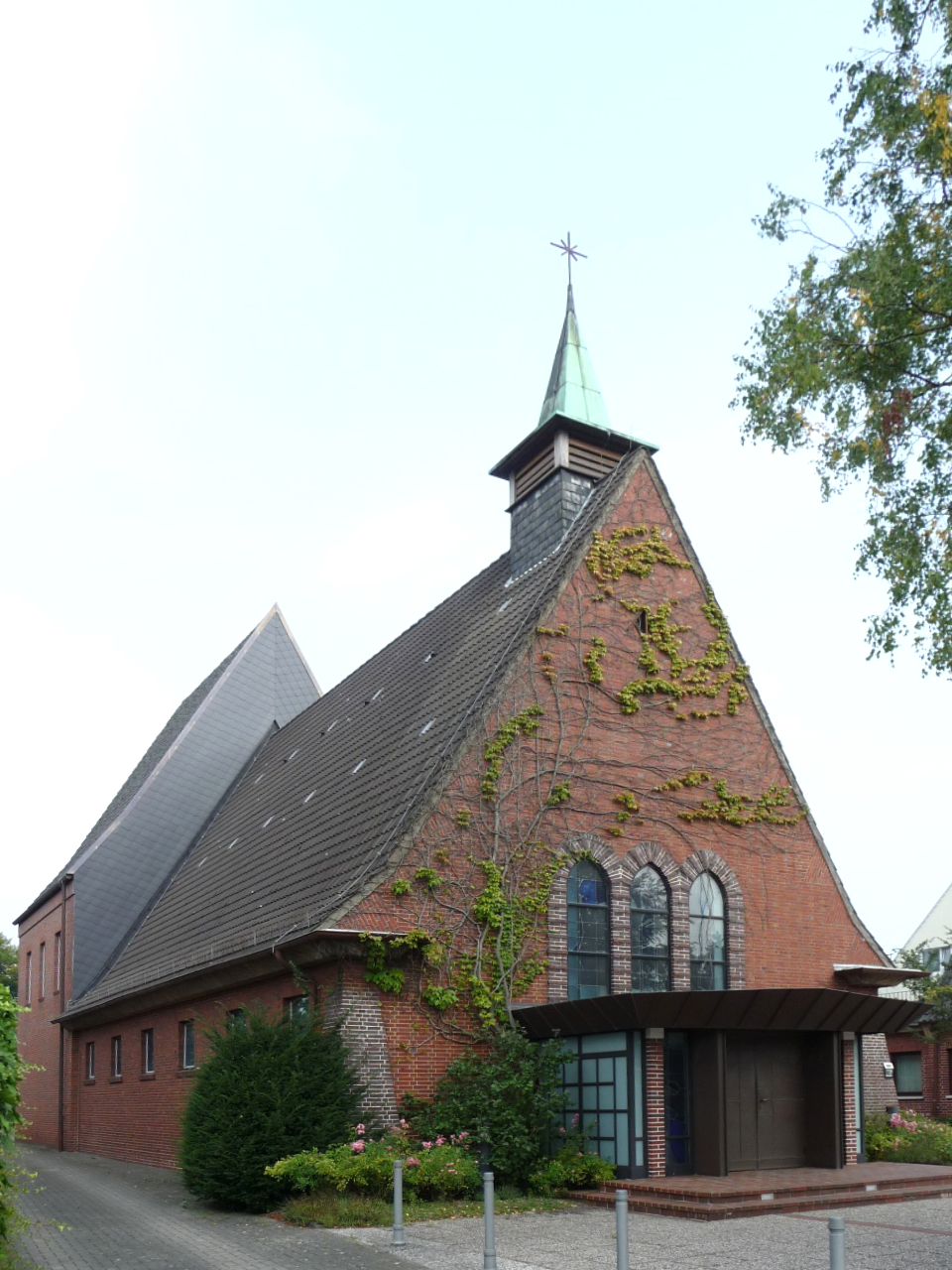 Christ-King-Church in Bremen-Roennebeck